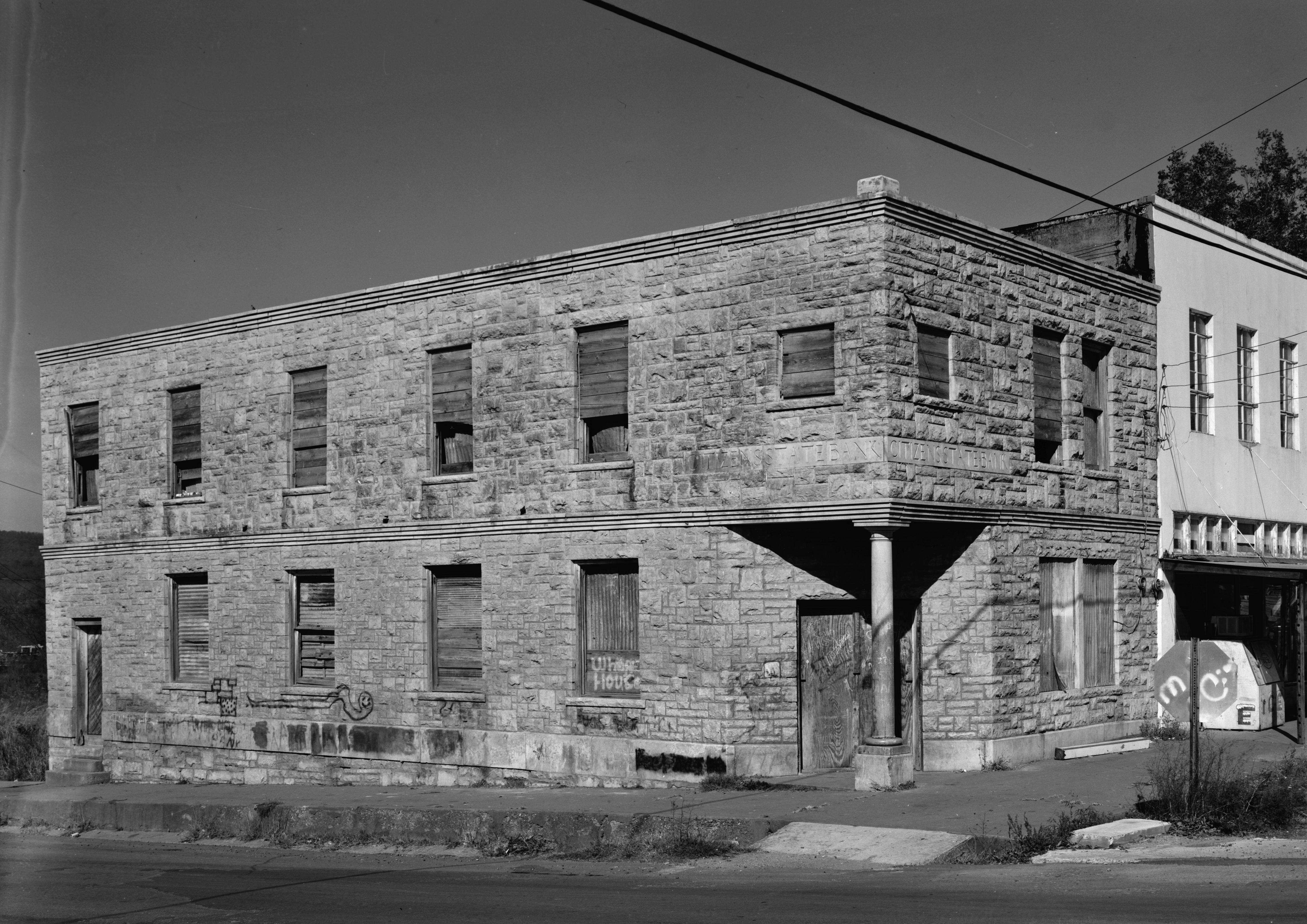 Front and side of the Citizen's State Bank, located at the intersection of Seminole and Main Streets in Marble City, Oklahoma, United States. Built in 1902, it is listed on the National Register of Historic Places.